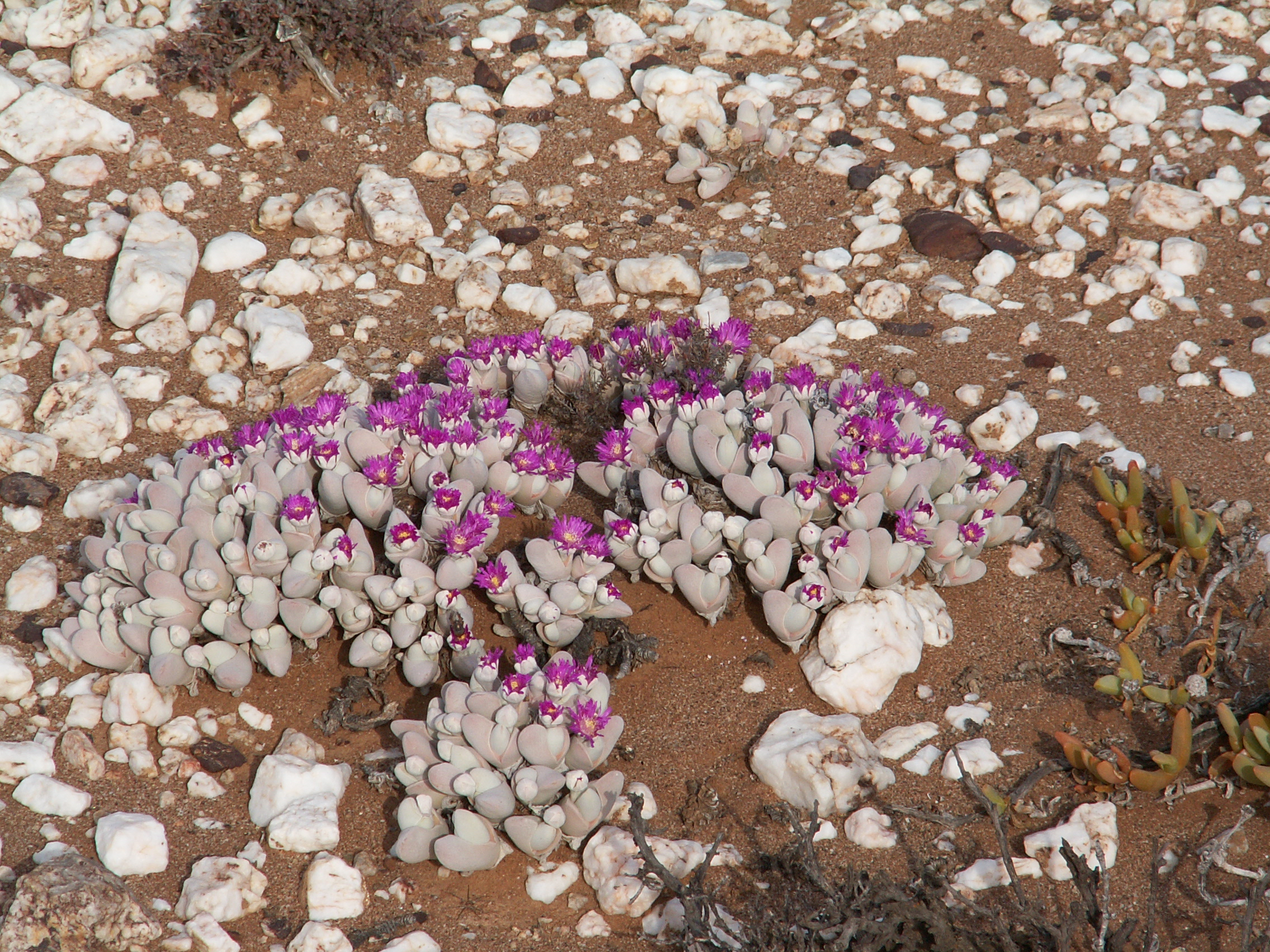 Visbekvygie, (Gibbaeum pubescens (N. E. Br.), Anysberg Nature Reserve, Western Cape, South Africa